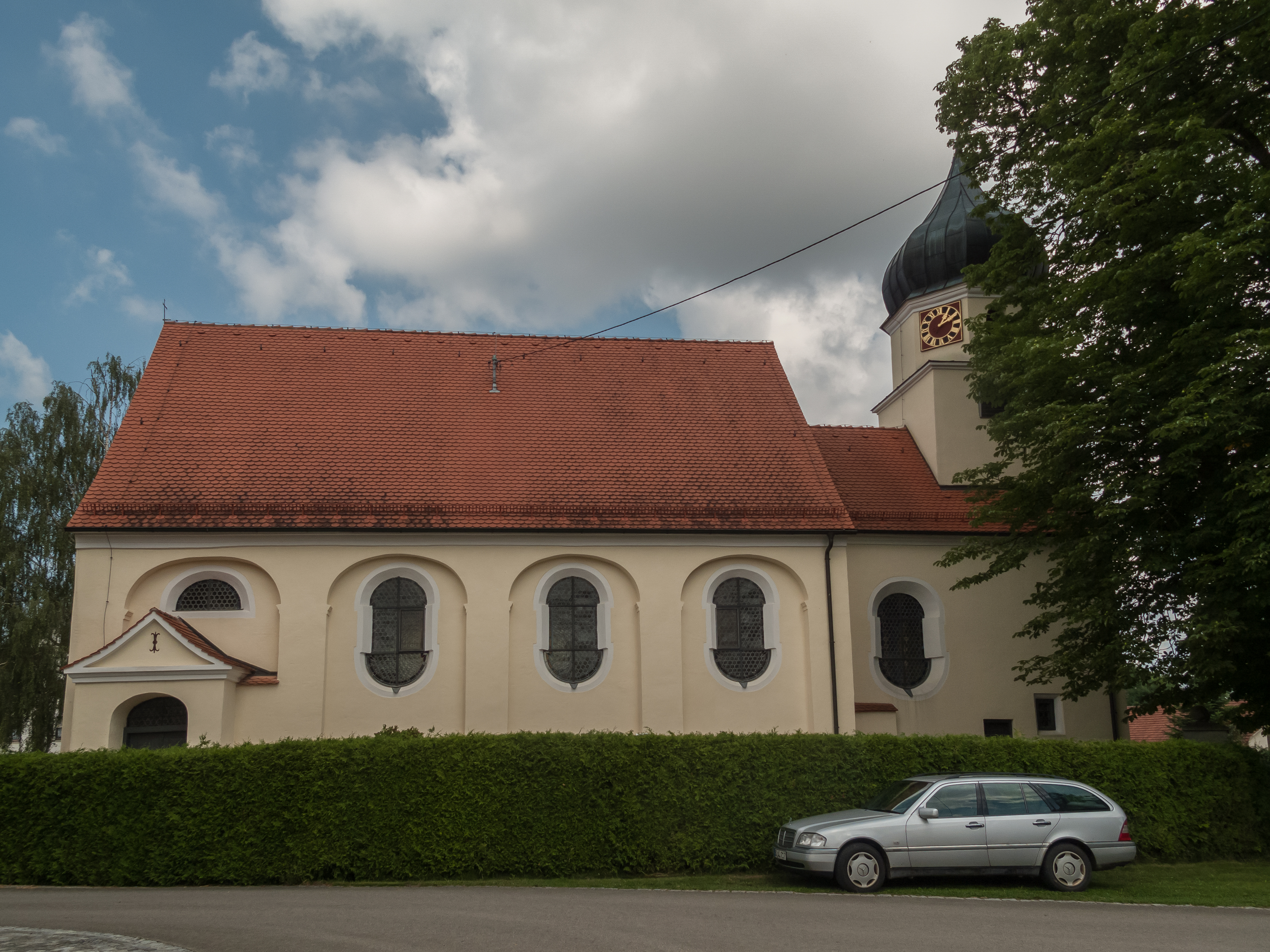 Illerbachen, church: die Kirche Sankt Josef